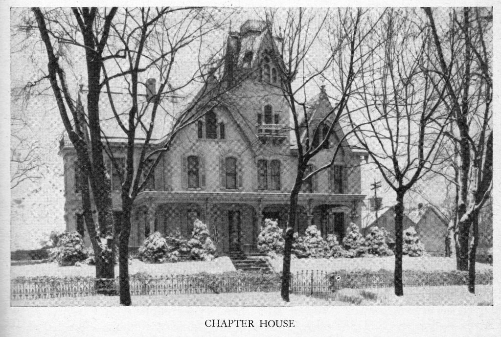 Nu Chapter of Phi Sigma Kappa fraternity, at Lehigh, photographed in winter, and reproduced in the May 1948 Signet. Address: 458 Center St, Bethlehem, PA, now the John F. Herron funeral home. Photo is a low res. scan. For use on the List of Phi Sigma Kappa Chapters page.